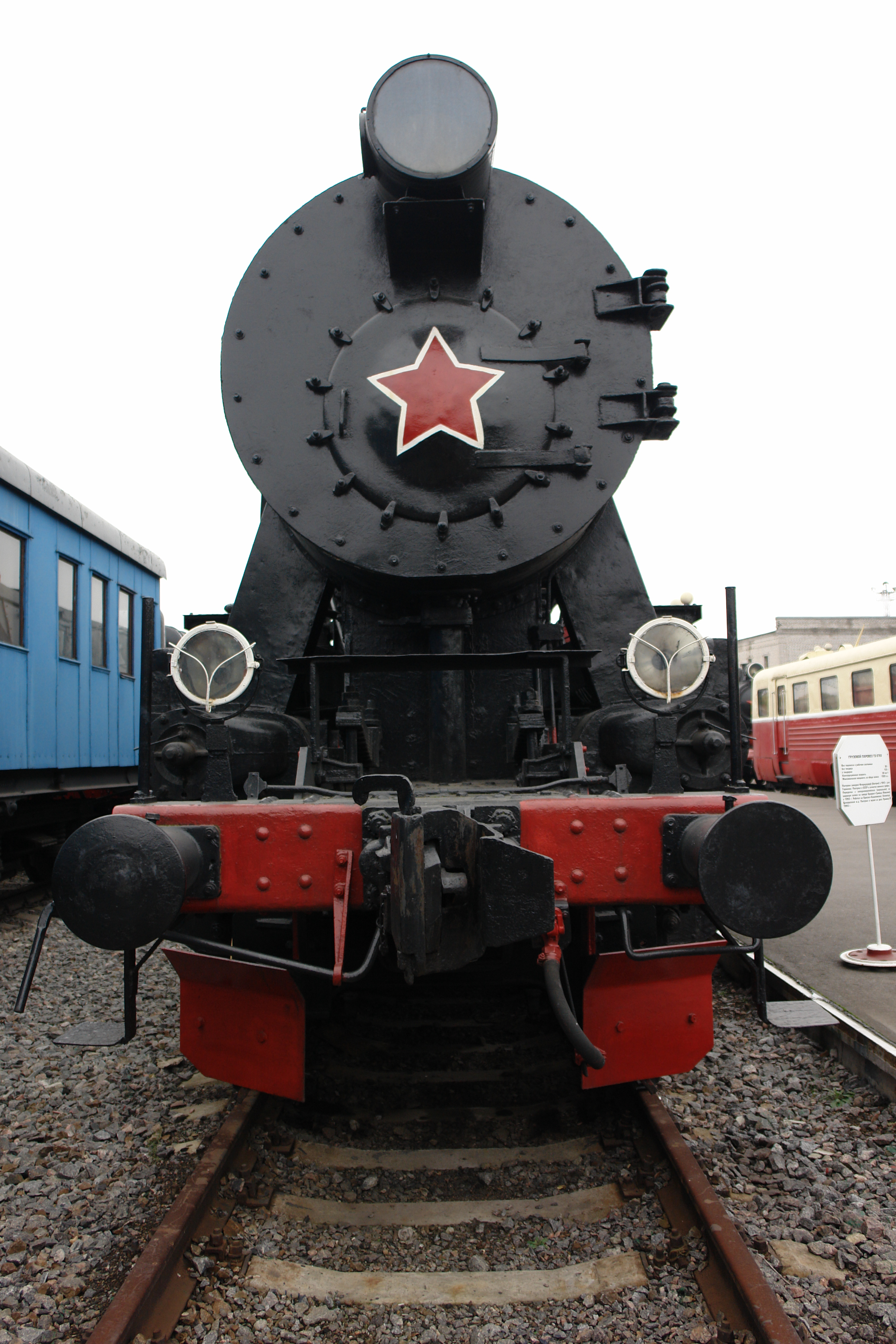 Freight steam locomotive ТЕ B769 Weight in serviceable condition:excluding tender86 t.including tender135 t.design speed80 km/hMaximum power on wheel rim1500 hp